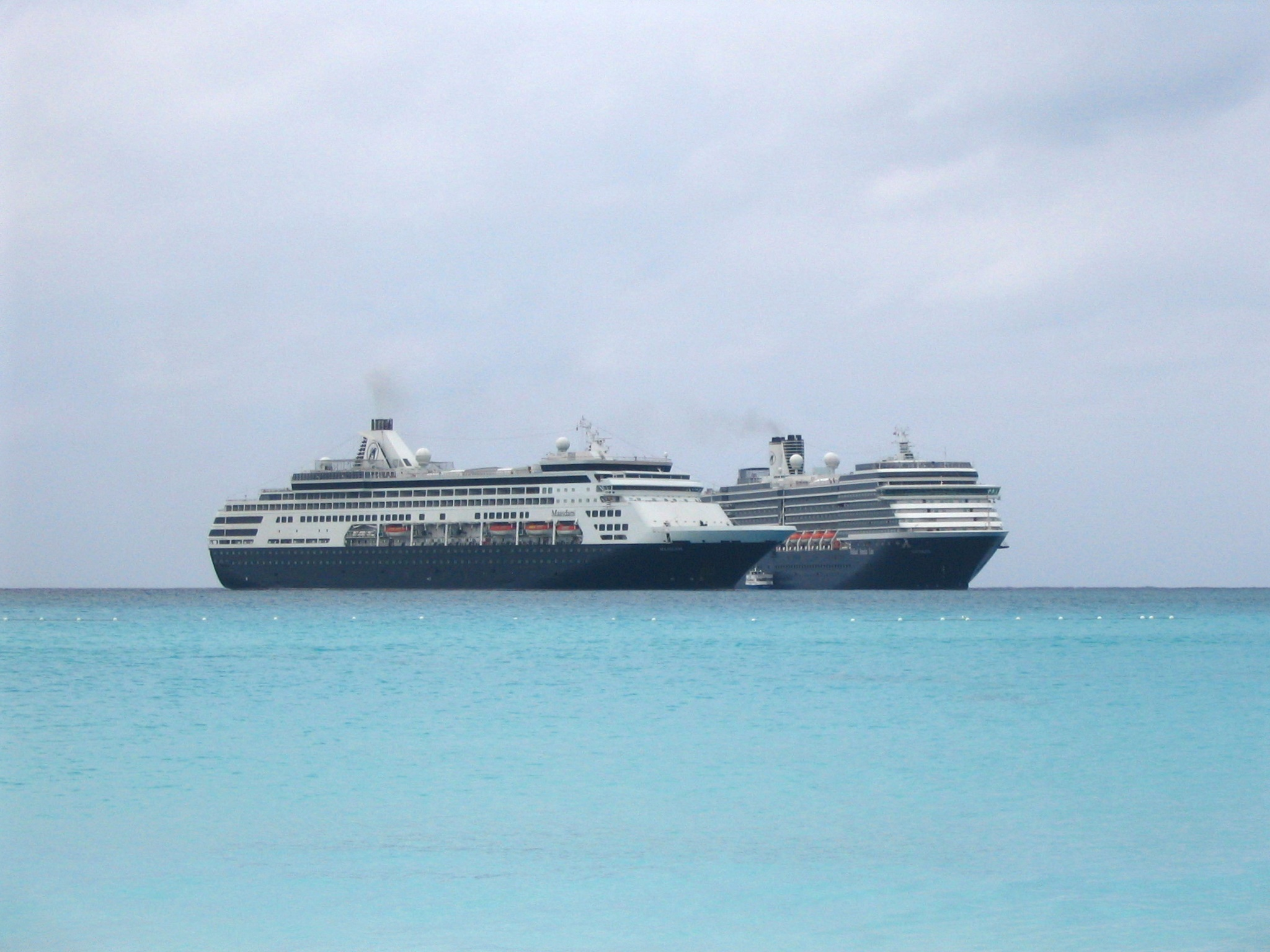 MS Maasdam (left) and MS Westerdam (right) are anchored side by side off Half Moon Cay, Little San Salvador Island, Bahamas. They are both cruise ships belonging to Holland America Line. One island tender is seen next to Westerdam. The Maasdam (IMO 8919257) and Westerdam (IMO 9226891) fly the Dutch flag.